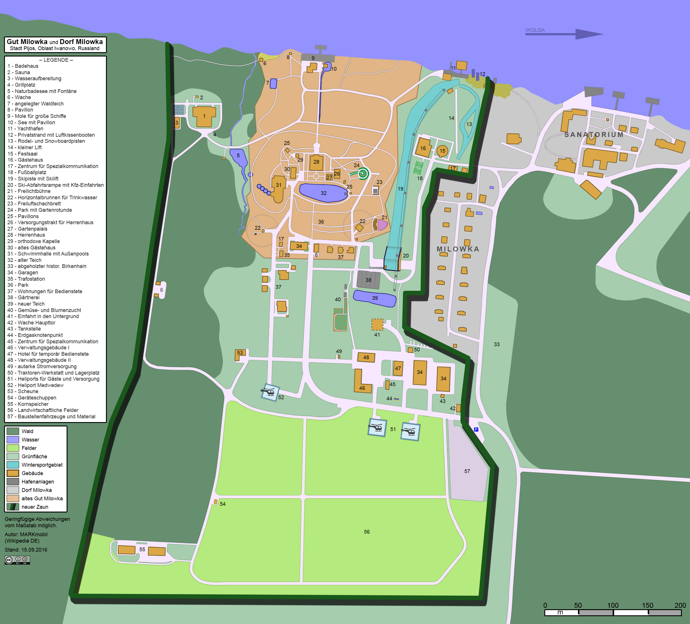 Map: Manor Milovka and village Milovka (city Plyos, Ivanovskaya oblast, Russia) German version.